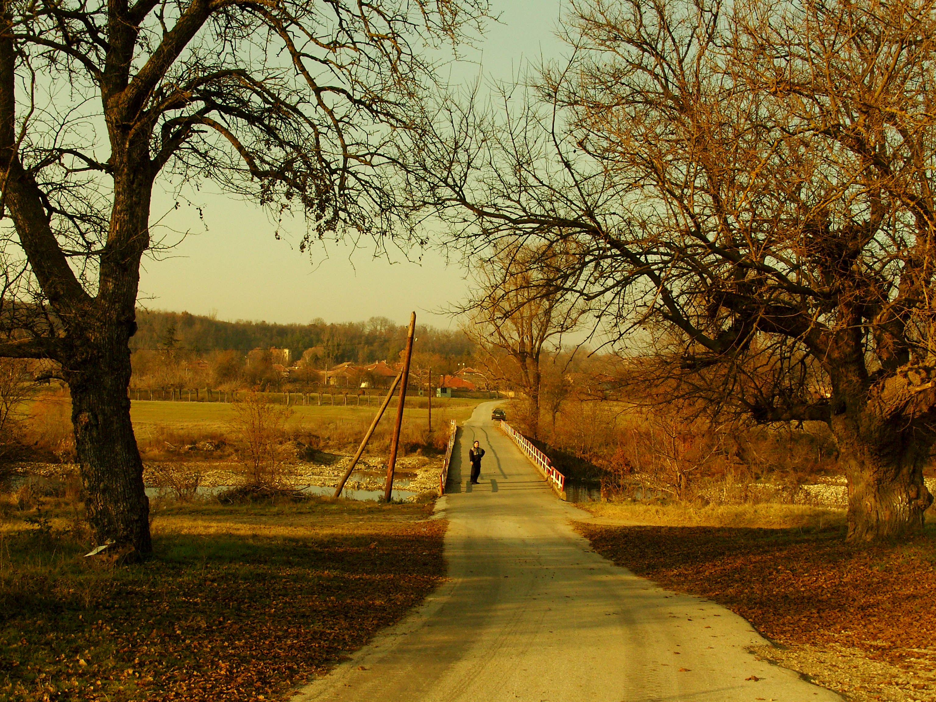 A picture from village Rositsa, Veliko Tarnovo District, Bulgaria